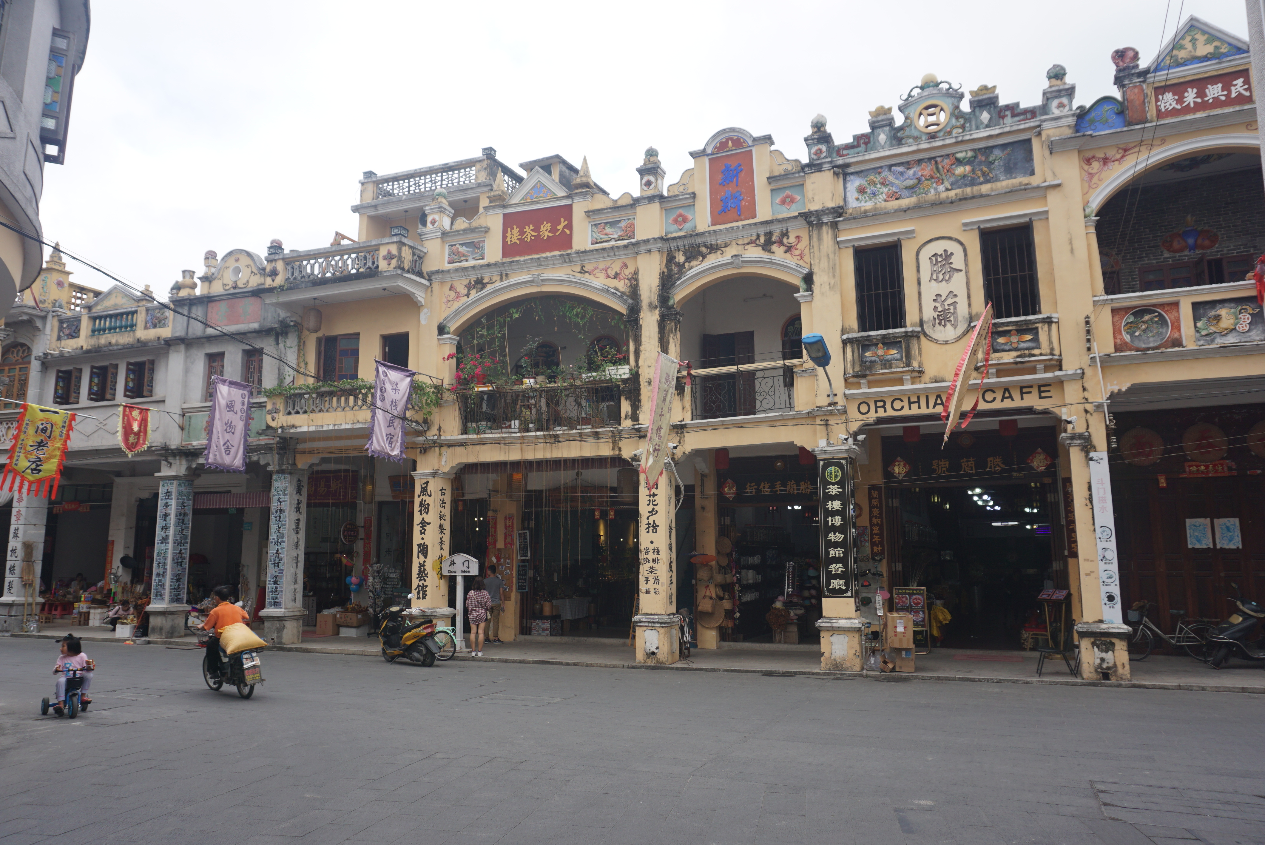 Verandas on Old Street in Doumen Town, Doumen District, Zhuhai, Guangdong Province